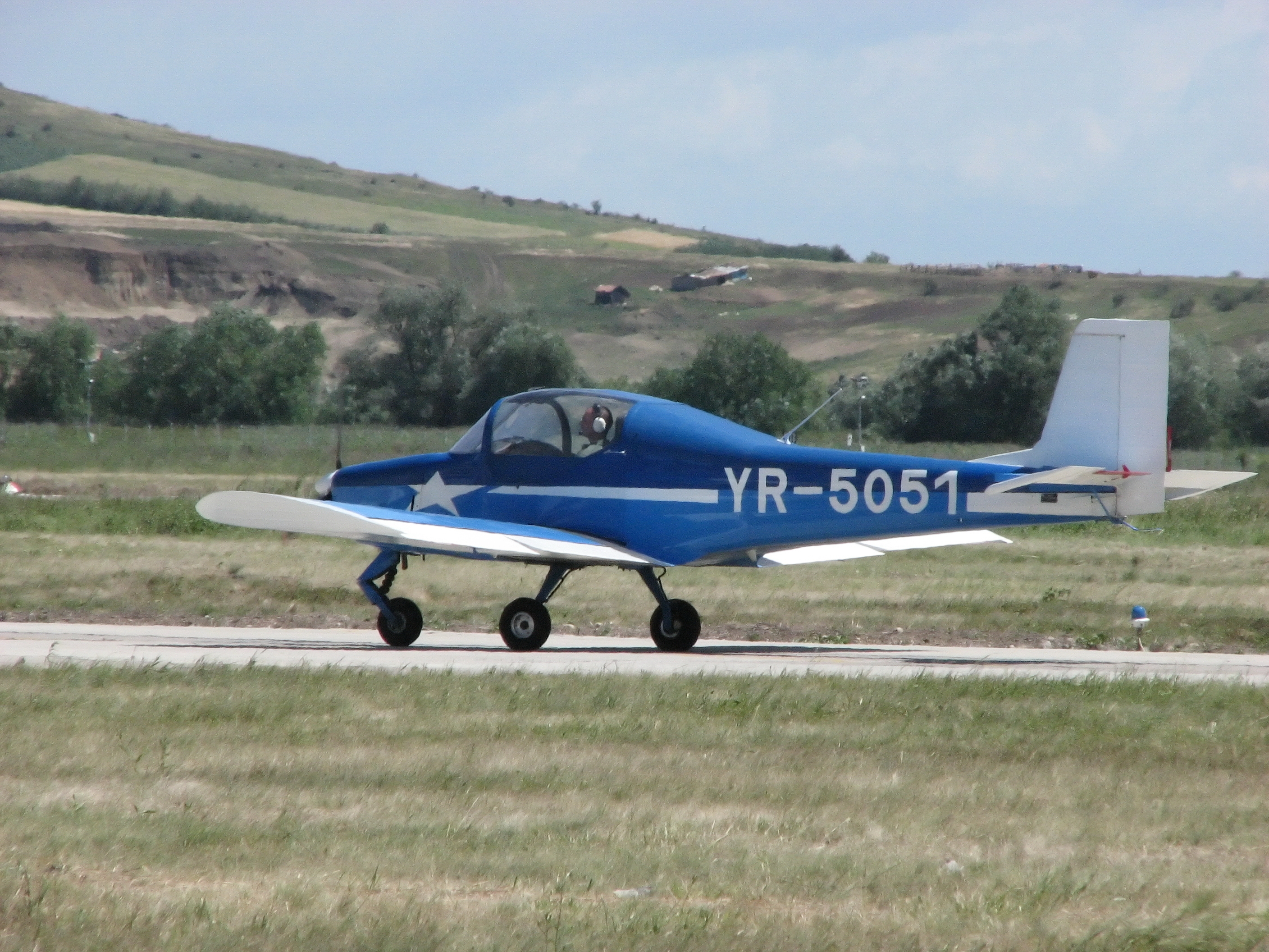 Aerostar Festival airplane (also known as Aerostar-01) (registration number YR-5051), at an Air Show near Cluj-Napoca, in 2007